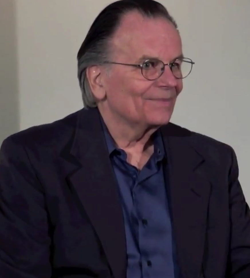 Gary Kurtz at Elstree Studios on May 5, 2012